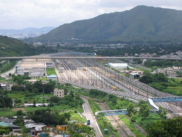 Pat Heung Maintenance Centre of KCR West Rail, in Pat Heung, Yuen Long, Hong Kong